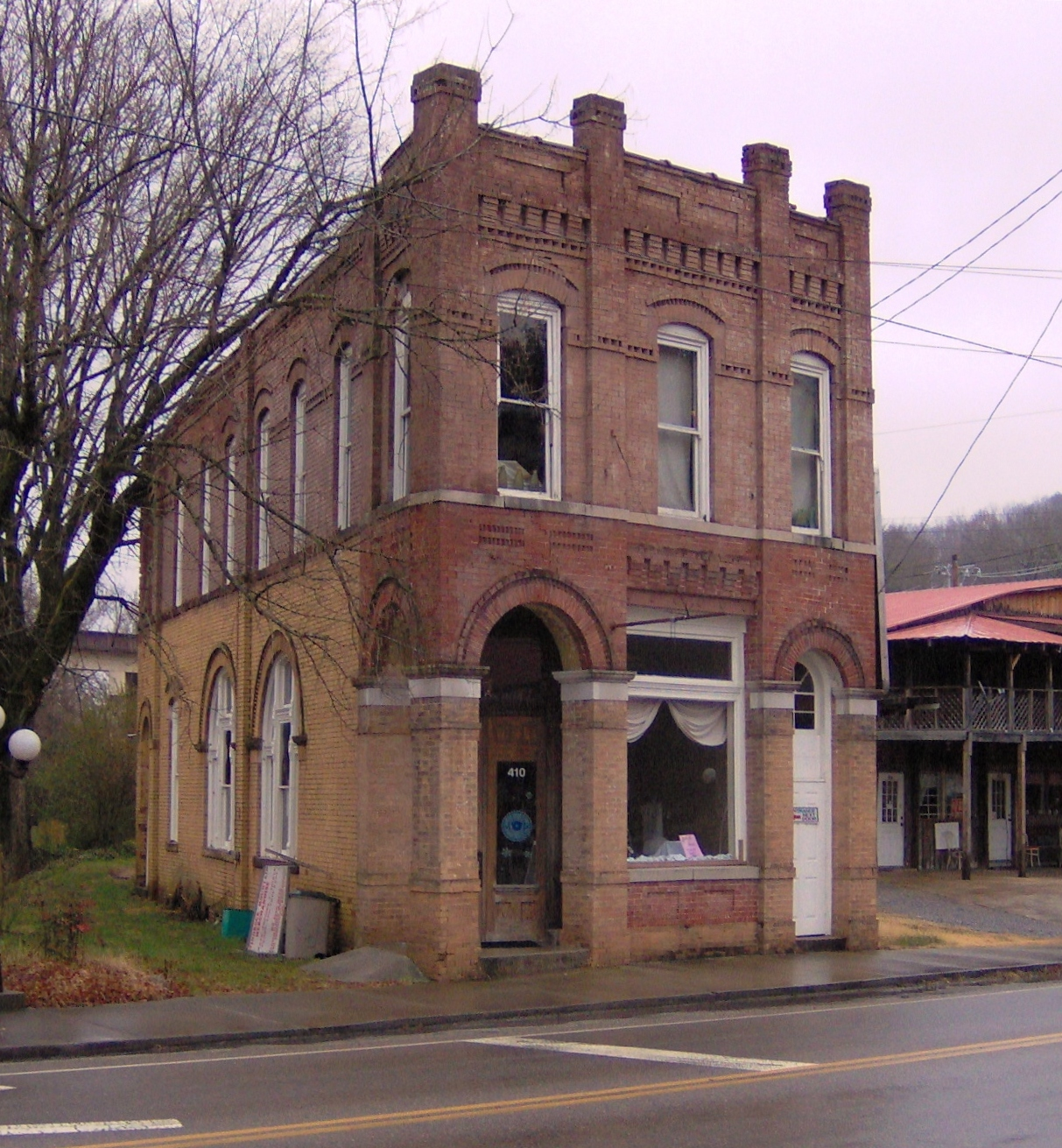 The NRHP-listed Oliver Springs Banking Company building in Oliver Springs, Tennessee, USA.